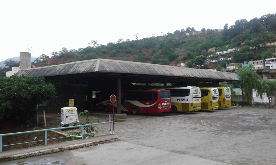 Bus terminal